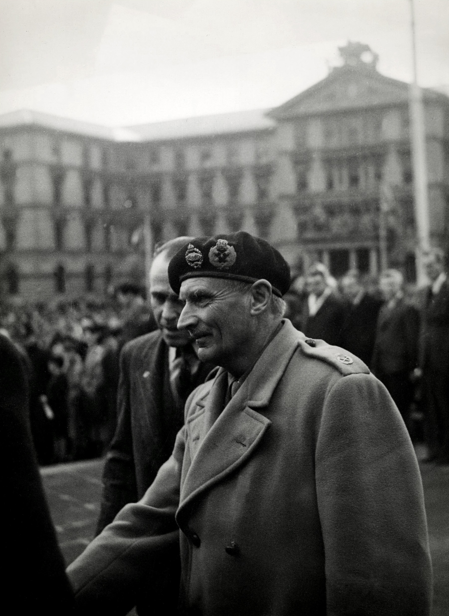 On 16th July 1947 Field Marshal Bernard Montgomery, 1st Viscount Montgomery of Alamein, arrived in New Zealand to confer with the Government on defence matters. Lord Montgomery was one of the most decorated military leaders of World War Two, and was famous for his victory at the Battle of El Alamein. At the time of his visit to New Zealand, he was Britain’s Chief of the Imperial General Staff. Lord Montgomery toured the country, receiving a hero’s welcome everywhere he went. The photograph above was taken in Wellington on 17th July 1947. The Old Government Buildings are visible in the background, as well as some of the thousands of Wellingtonians who turned out to see Lord Montgomery (nicknamed ‘Monty’ and ‘The Spartan General’). Public servants in central Wellington were granted an hour’s leave so they could witness the Field Marshal’s drive from Government House to the Cenotaph, where he laid a wreath. The photograph was taken by J D Pascoe and is included in a Department of Internal Affairs file detailing the arrangements for Lord Montgomery’s visit. The large file also includes correspondence, newspaper clippings, luggage labels used on the tour, itineraries, and a poem dedicated to Lord Montgomery, titled ‘Welcome to New Zealand’. The poem, sent to Internal Affairs by a member of the public, ends: ‘Your faith; sublime endeavour, Won the praise of all mankind, May your spirit live forever, And United Nations bind’ For footage of Lord Montgomery’s tour of New Zealand, see Weekly Review No. 311: Reference: ACGO 8333 IA1 2973 / 152/578 (R19967303) For further information please For updates on our On This Day series and news from Archives New Zealand, follow us on Twitter Material from Archives New Zealand